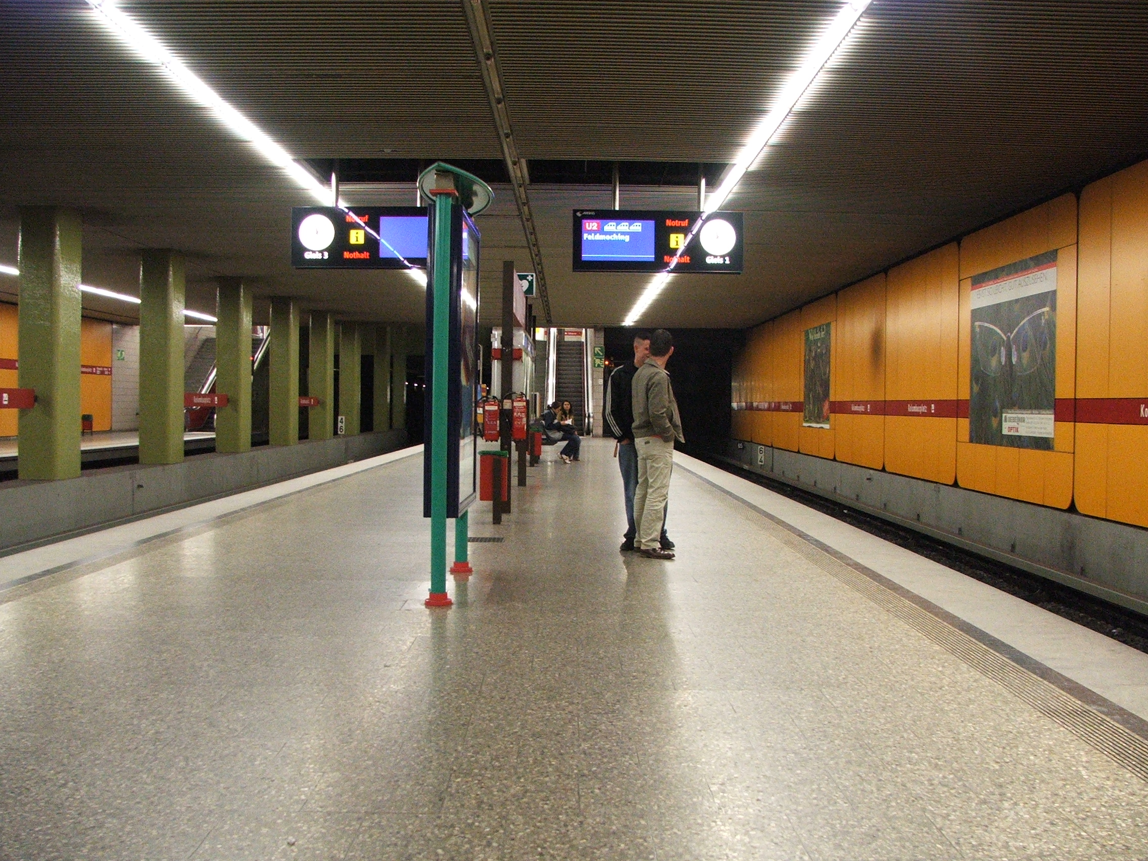 Kolumbusplatz station platform.U-Bahnhof Kolumbusplatz